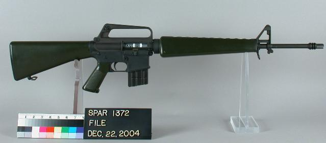 Colt Armalite AR-15 M01